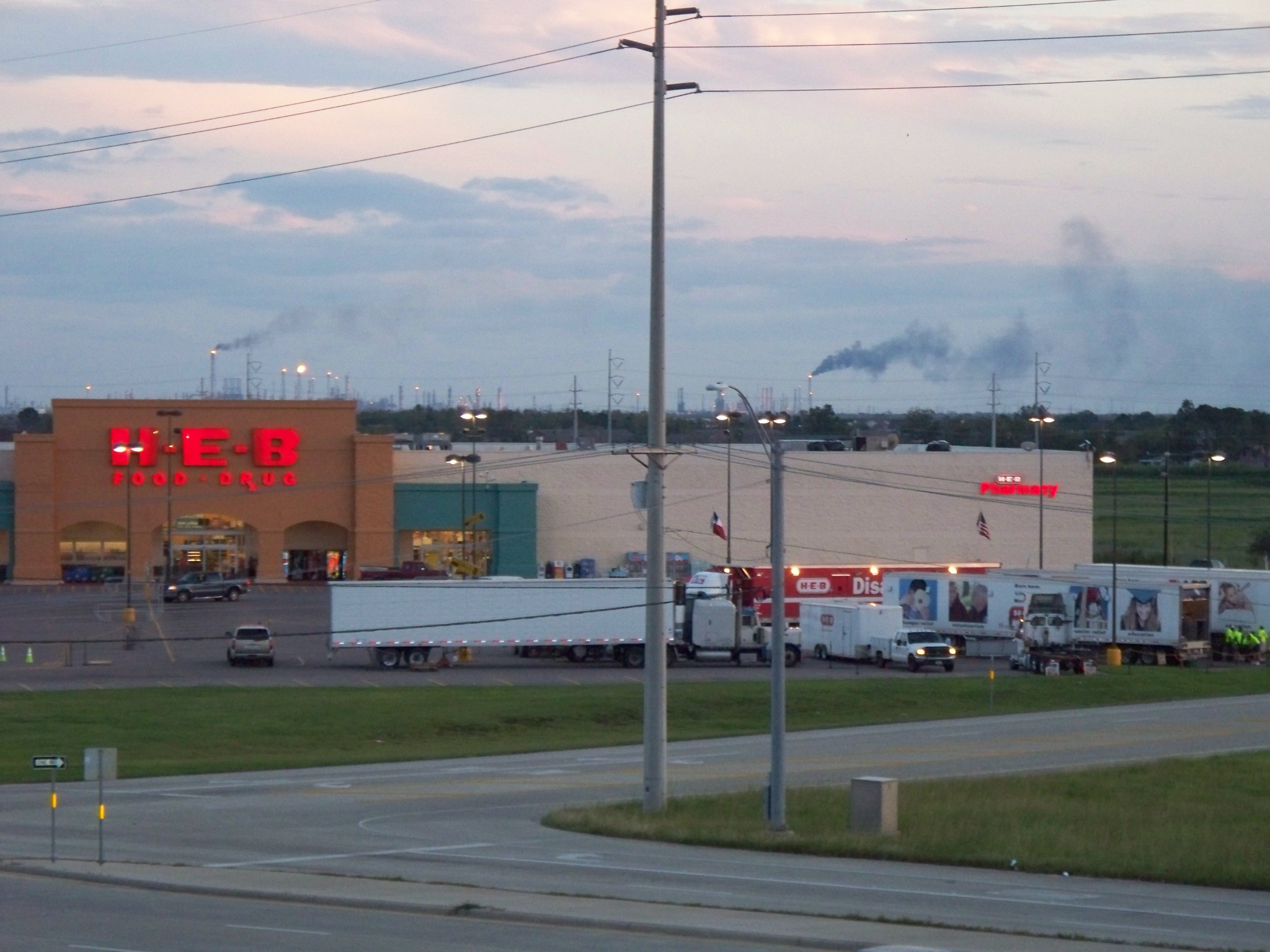 View of HEB Store where recovery crews assemble after Hurricane Ike. Port Arthur, Texas refineries are flaring in the background in shutdown.